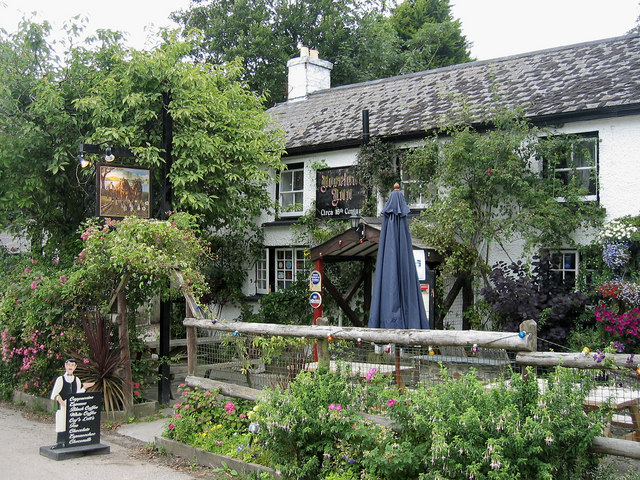 Roseland Inn, Philleigh. Tucked away down the lanes at Philleigh , the Roseland Inn dates from around the 16th century.